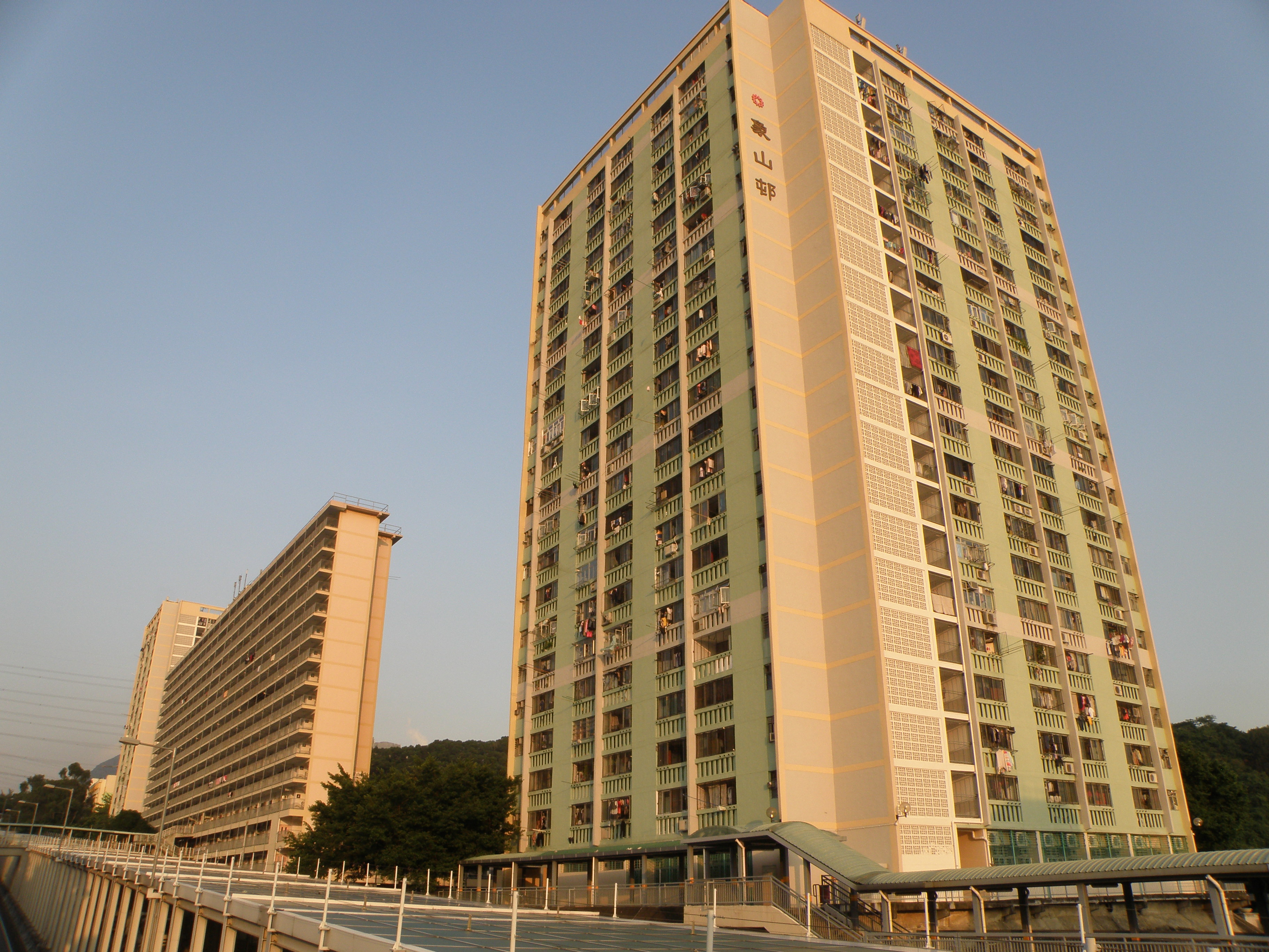 Cheung Shan Estate in Tsuen Wan, Hong Kong.